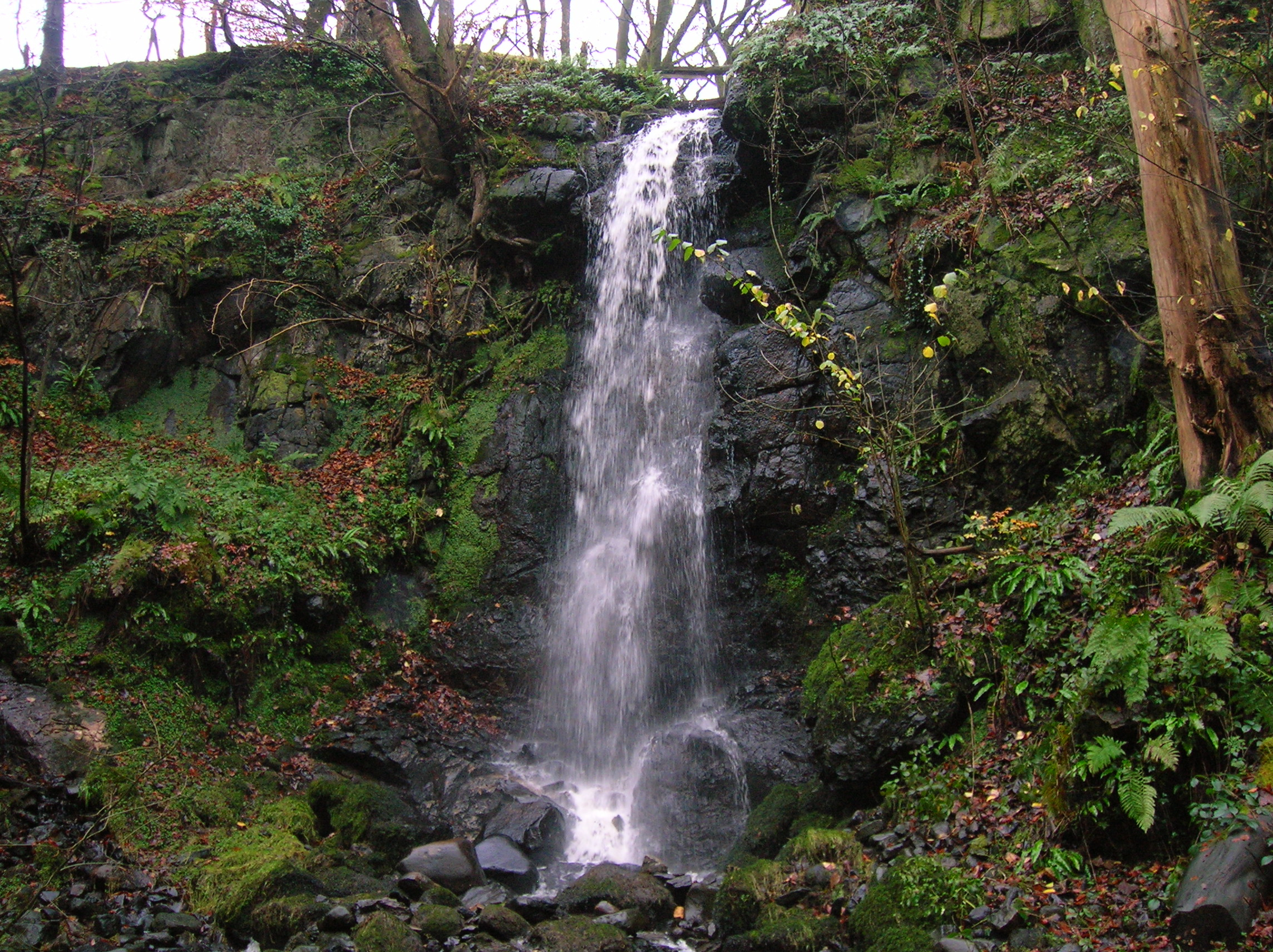 The Monkcastle Burn waterfall, Dalry, North Ayrshire, Scotland